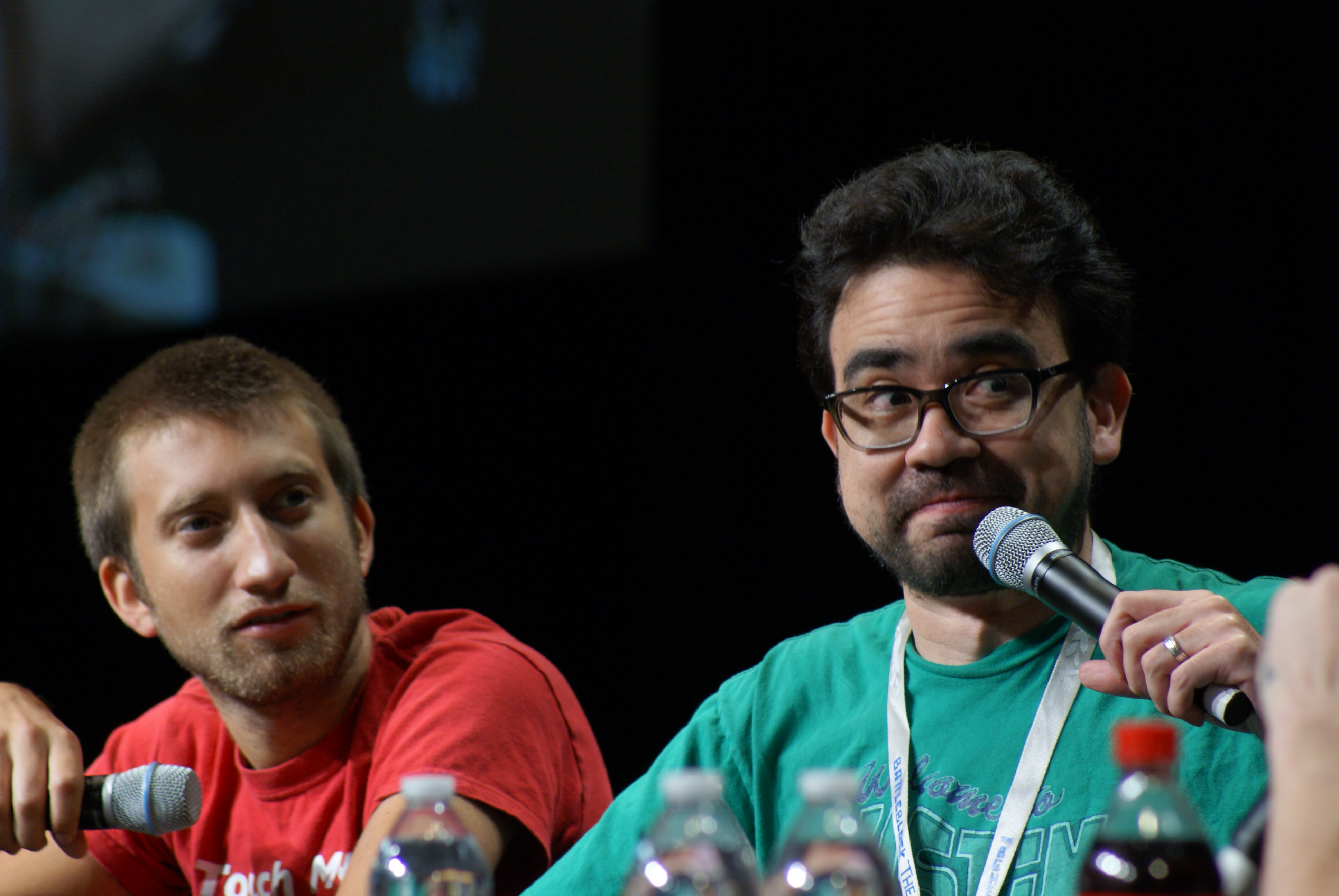 Gavin Free (left) and Gus Sorola (right) appearing together on the RT Podcast panel at RTX 2013